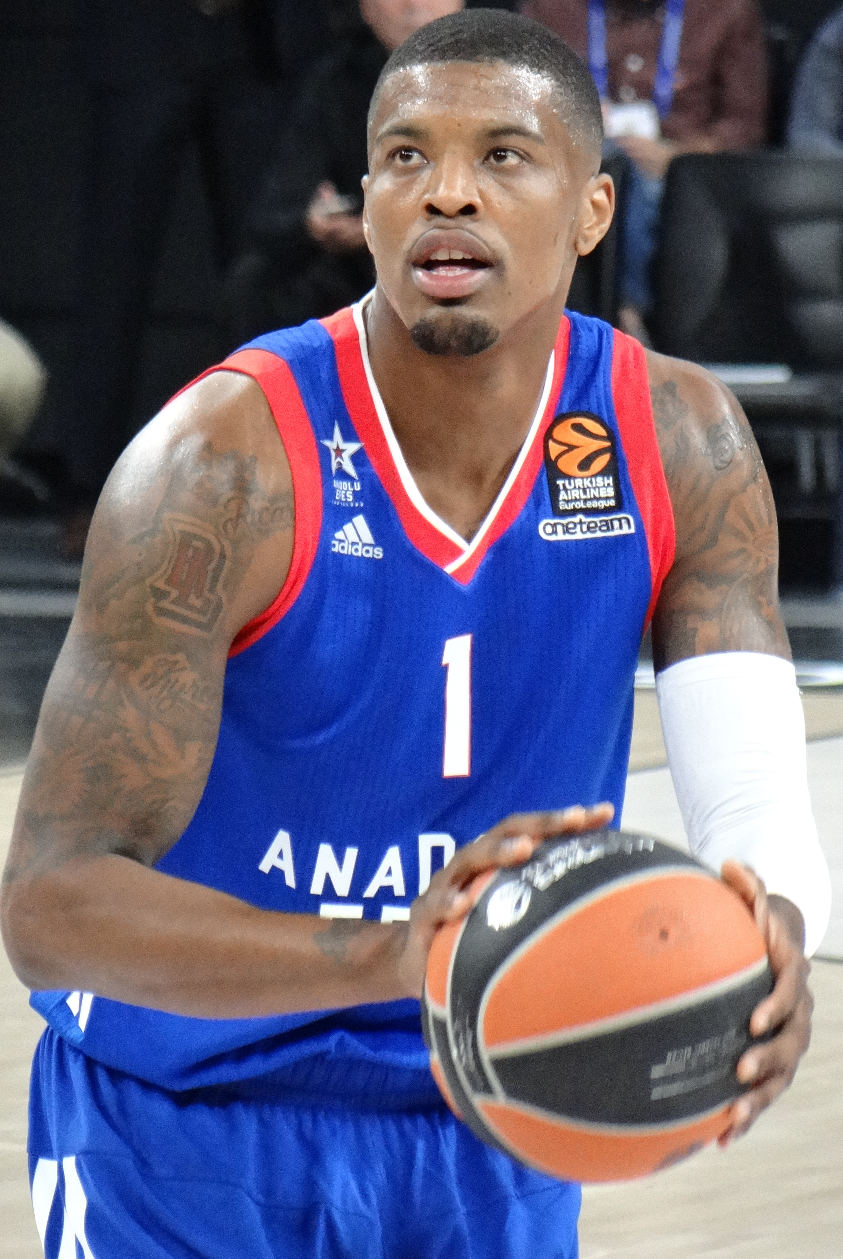 Ricky Ledo 1 Anadolu Efes Euroleague 20171012